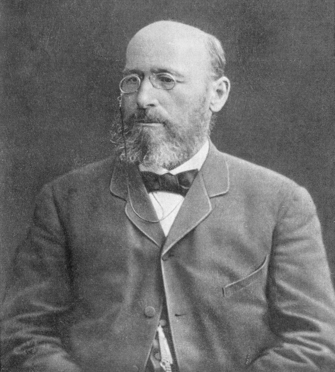 Russian chemist, academician A. M. Butlerov.